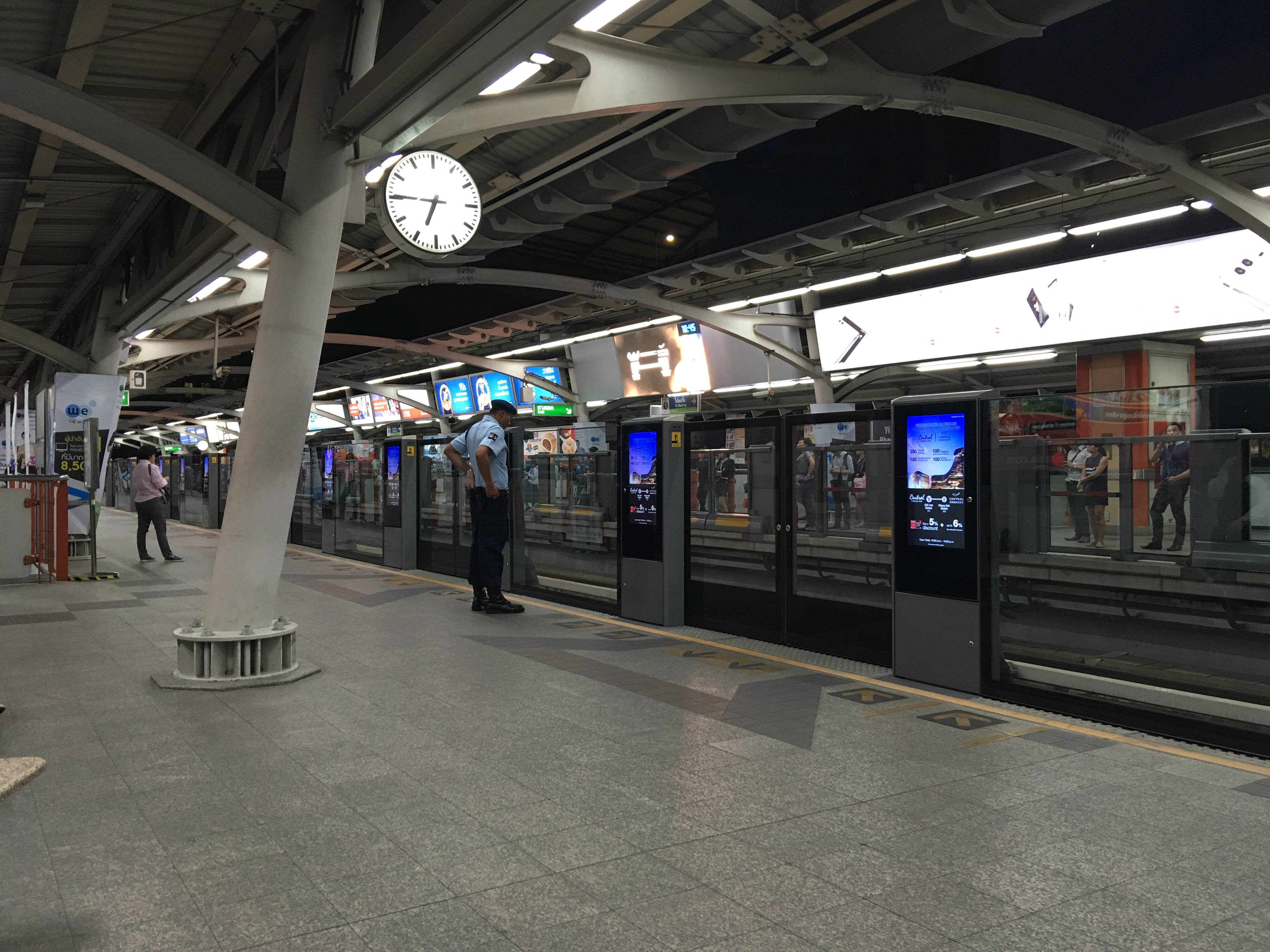 Platform 2 (to Mo Chit) of Phaya Thai Station